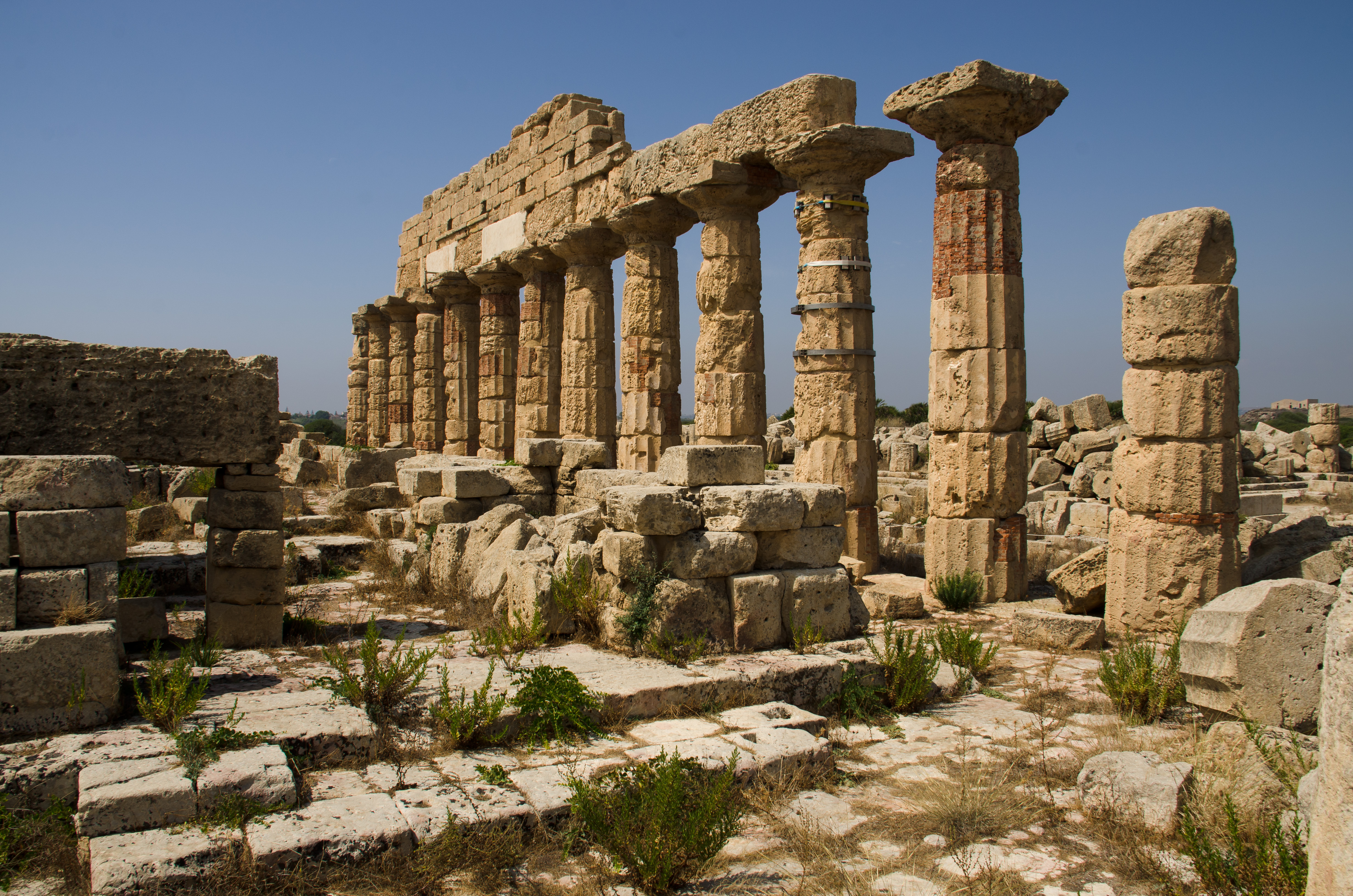 Selinunte, Sicily. Temple C.